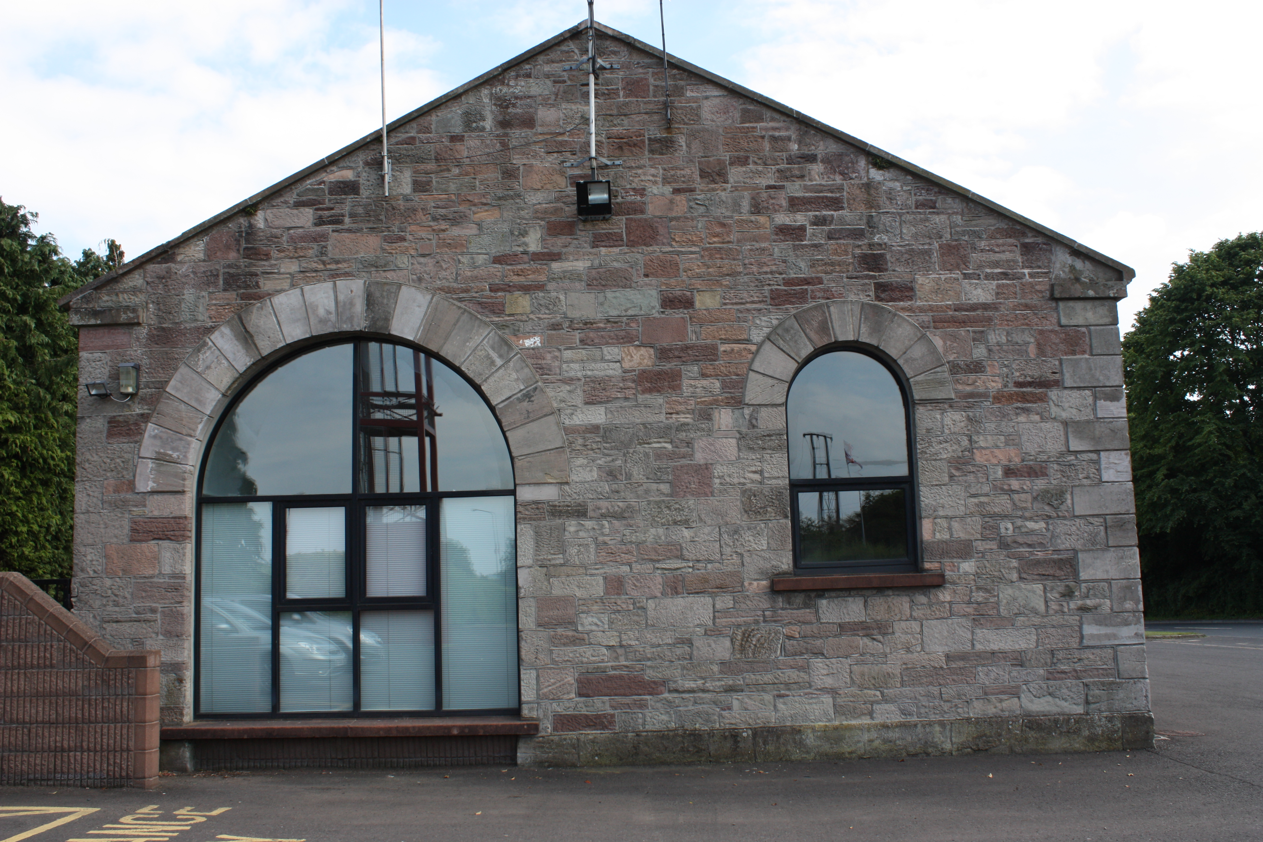 Comber Fire Station, Glen Link, Comber, County Down, Northern Ireland, June 2010 (housed in former railway building)